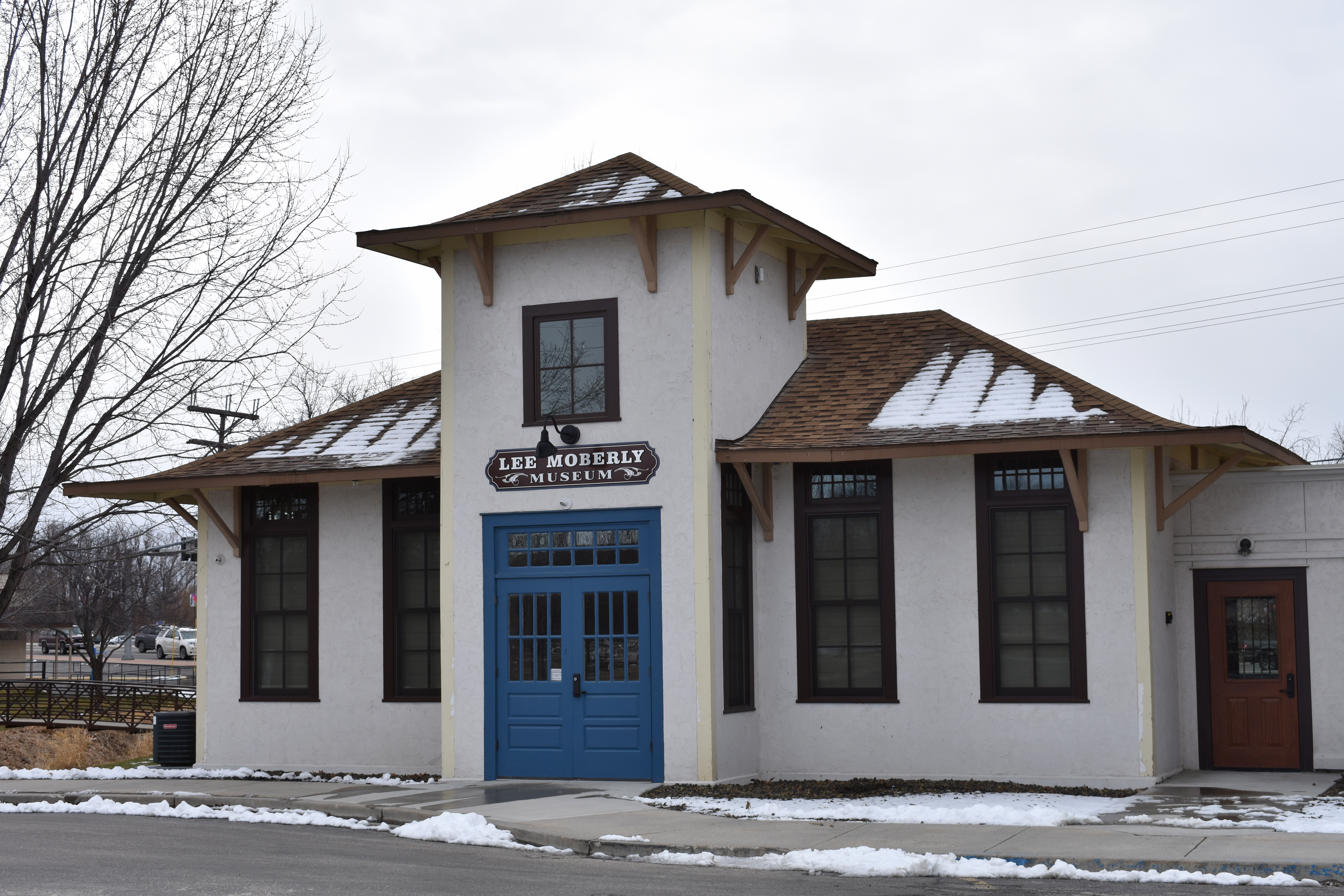 The Middleton Substation (1912) in Middleton, Idaho, was part of the Boise Interurban Railway, and the building is listed on the National Register of Historic Places.